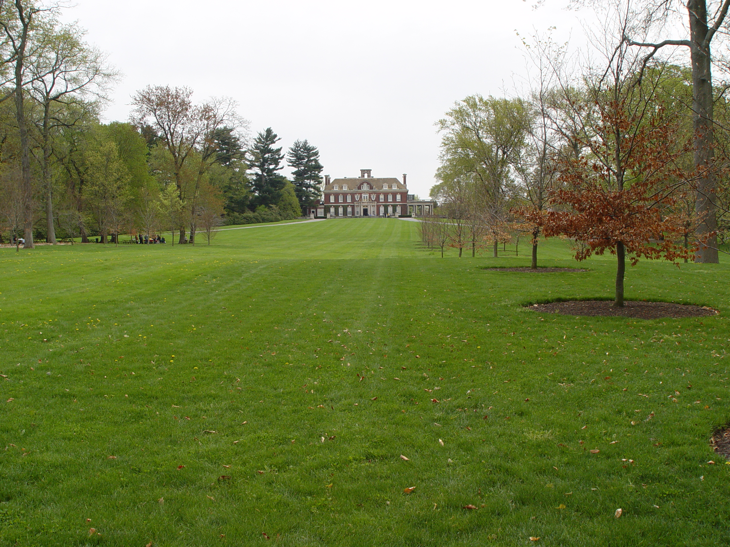 Placed in public domain by Distlej 03:03, 5 May 2007 (UTC)